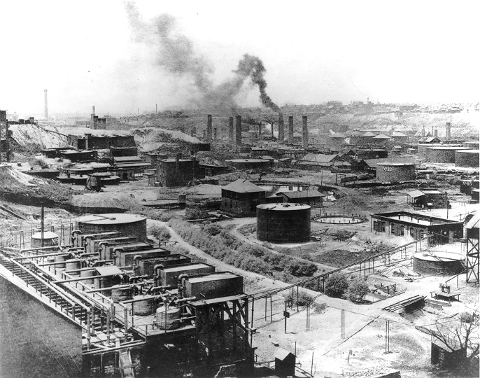 Standard Oil Refinery No. 1 in Cleveland, Ohio